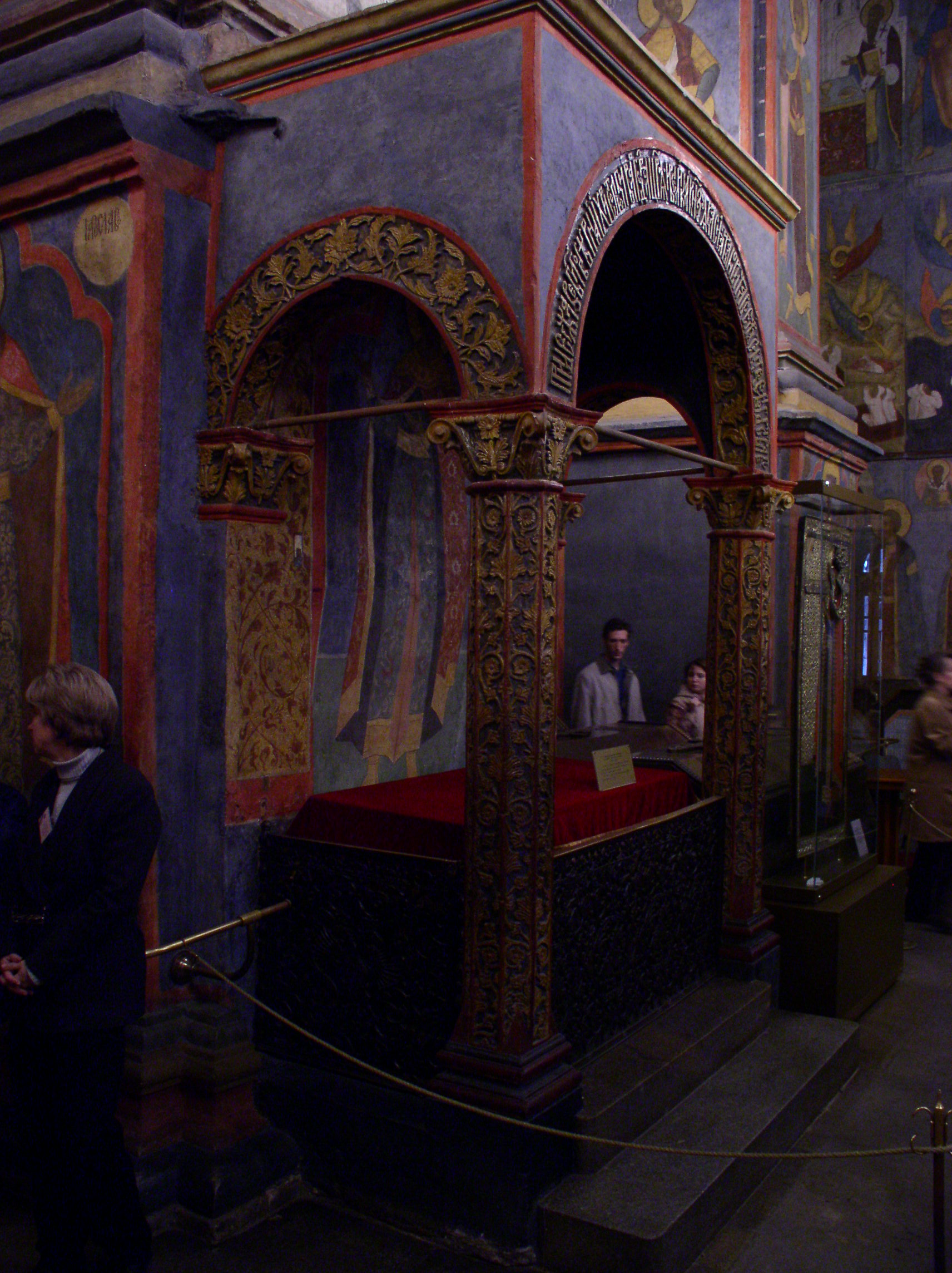 Moscow Kremlin museums exhibitions. Moscow, Russia.